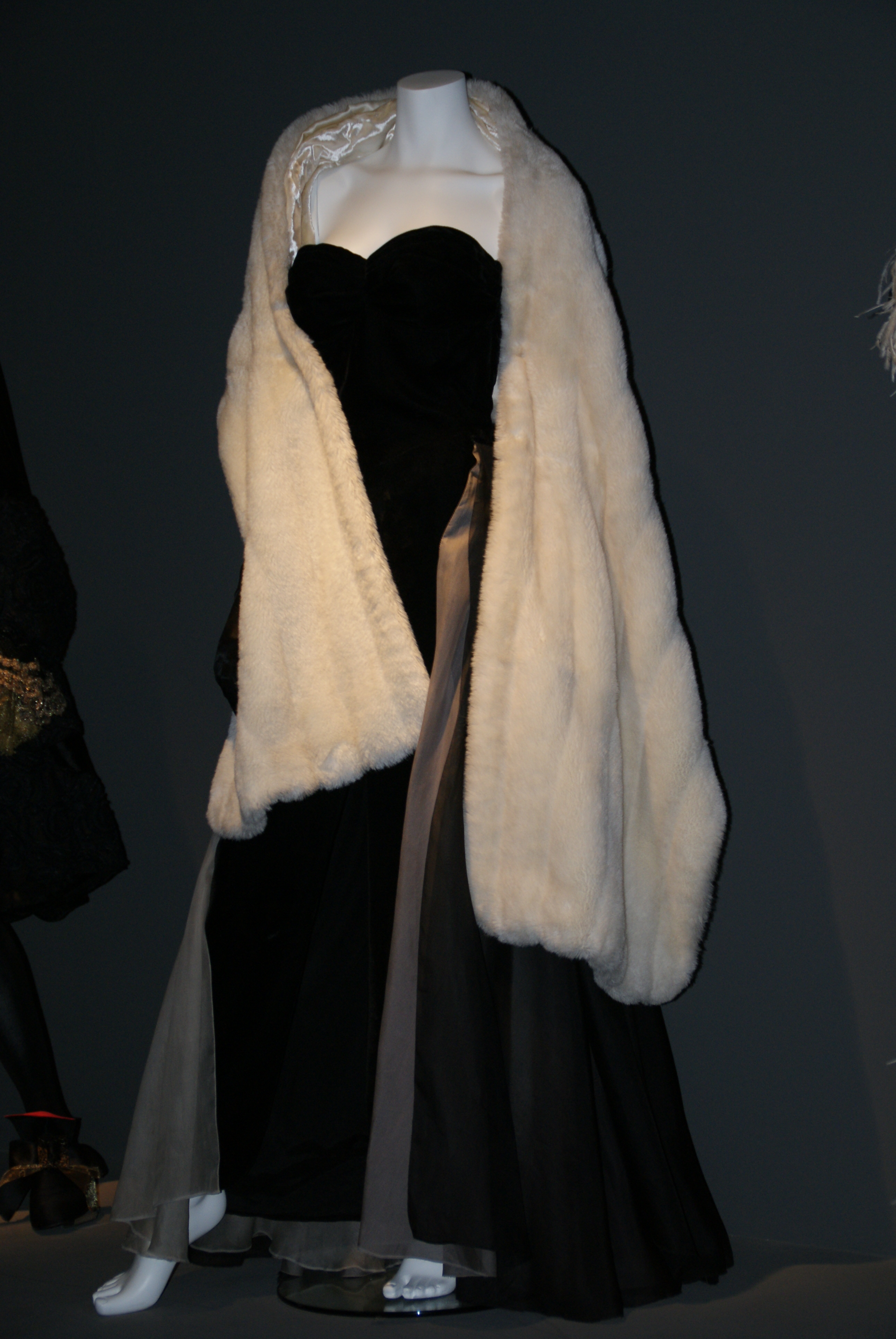 Costume worn by Anita Ekberg in the film La Dolce Vita directed by Federico Fellini in 1960 displayed in Cinecittà studios, Rome, Italy. Costume designer: Piero Gherardi